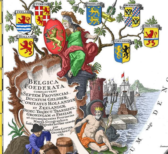 Part of the map of the United Provinces of Belgia by Tobias Lotter from Augsburg (Bavaria)